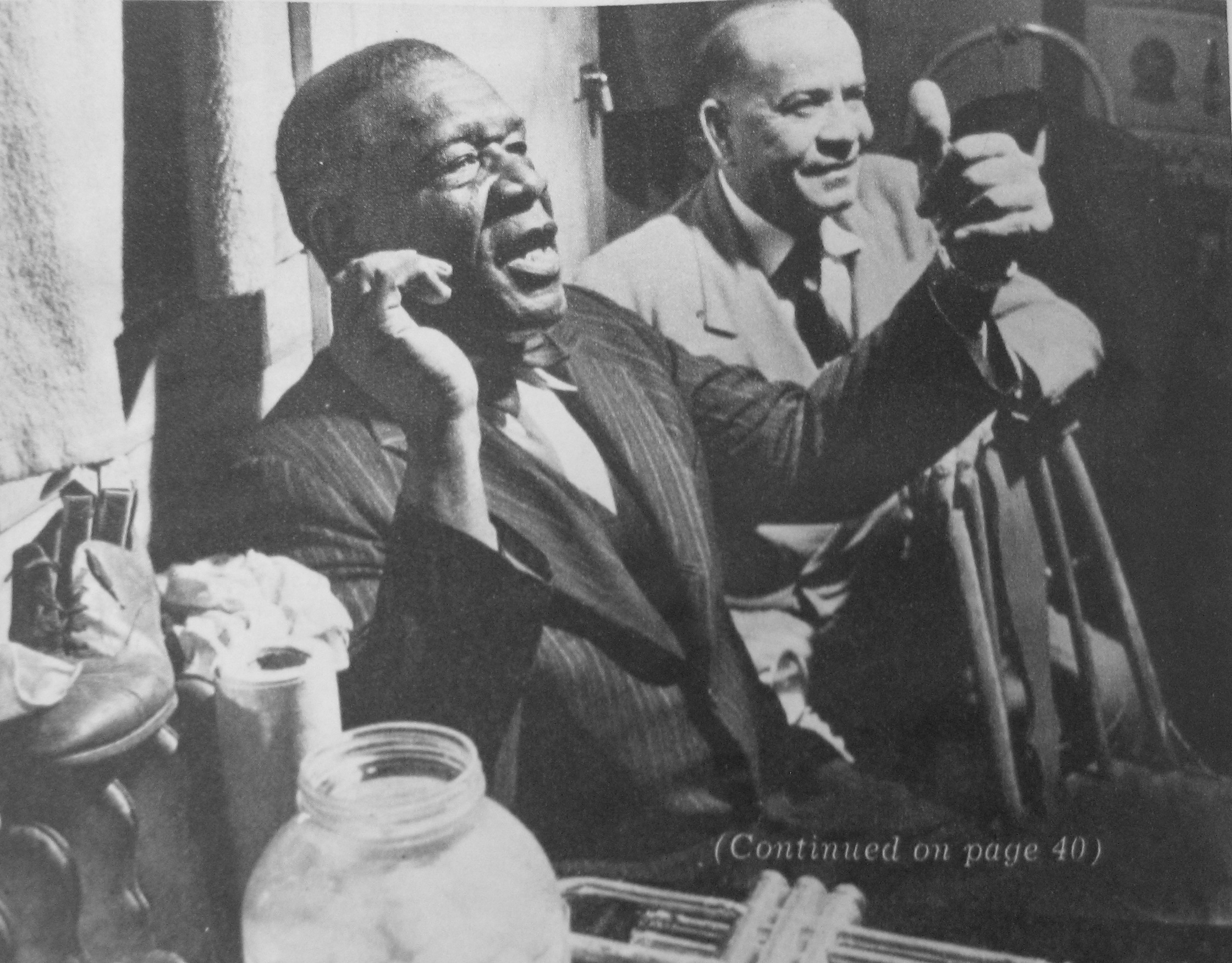 jazz musicians Papa Celestin (left) and Alphonse Picou, New Orleans, 1950